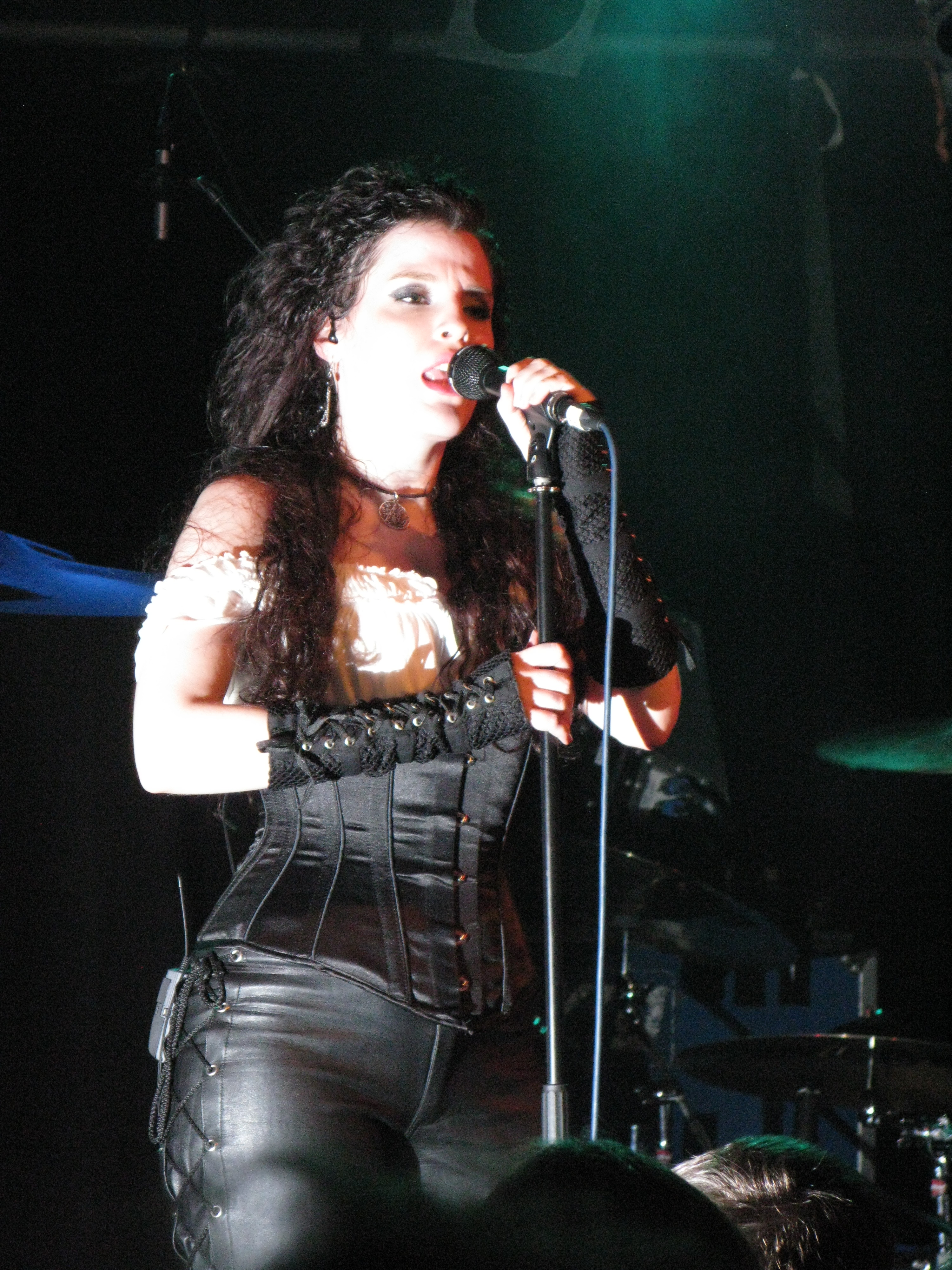 Ailyn (Sirenia) at Beauty And The Beast Fest @ Biebob, Vosselaar - Belgium